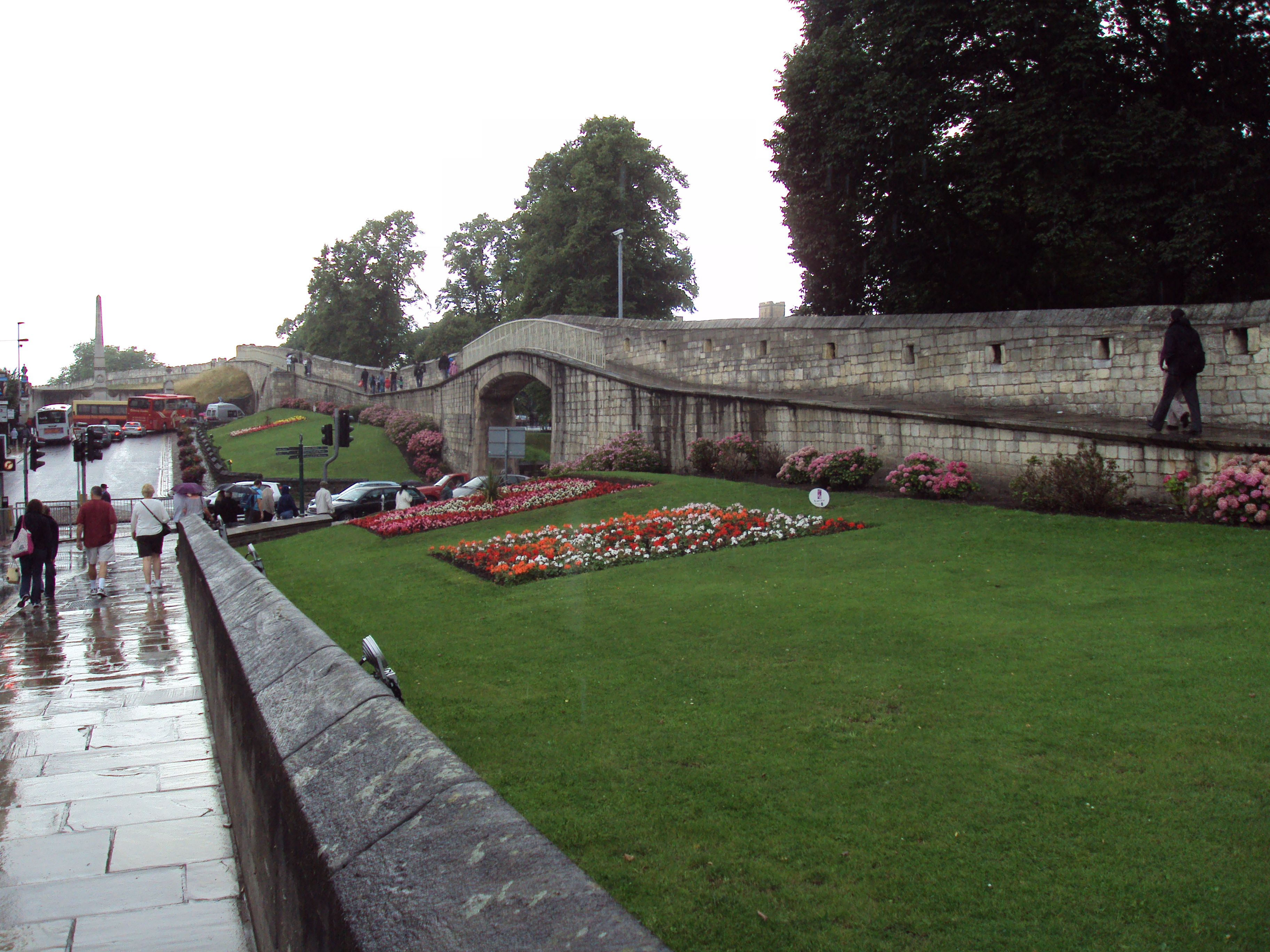 Flowerbeds near the city walls at Station Road, York.